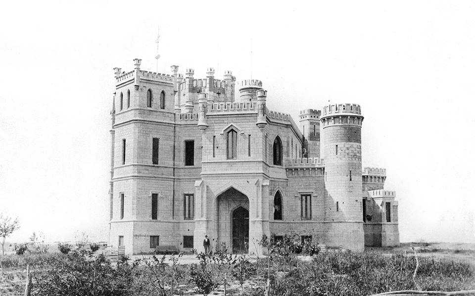 The Obligado Castle, designed in 1896 by architect Adolfo Büttner for poet Rafael Obligado. The castle, completed in 1898, is located in Ramallo County in Buenos Aires Province, on the banks of the Paraná River. The reputedly hanuted building has 24 rooms and 6 bathrooms, and is currently owned by Obligado's descendants.